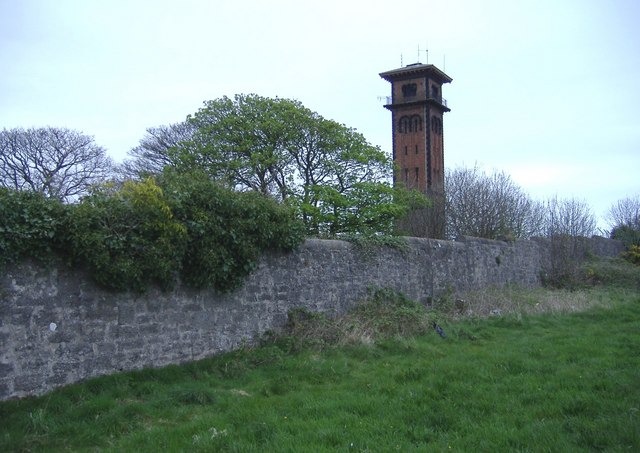 Water pumping station, Cleadon The chimney of this Neo-italianate building is visible in this shot. Built in 1863, by Thomas Hawksley.